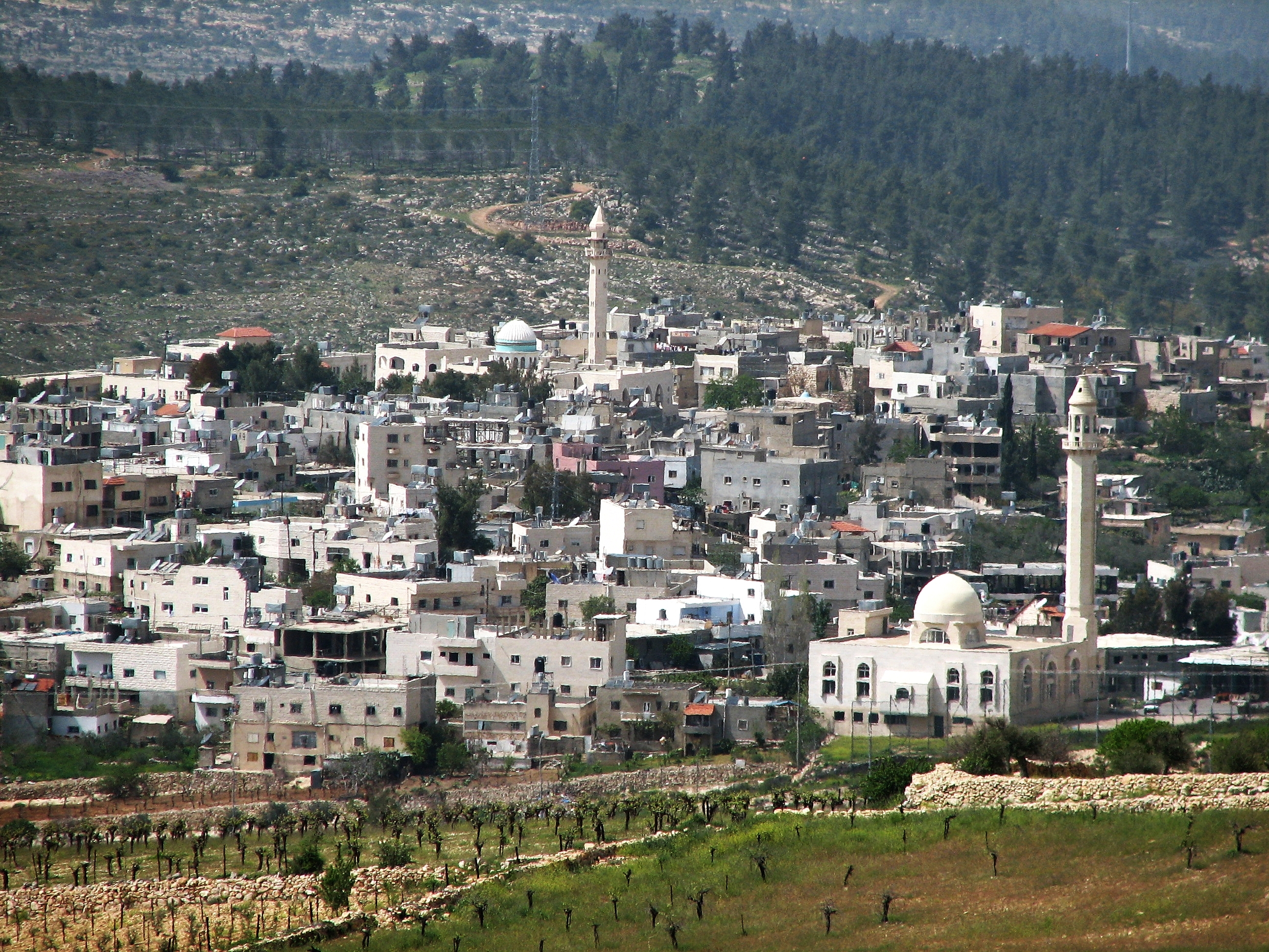 Arab village of Husan, view from Sde Boaz.